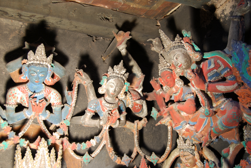 Created by Sreekumar Menon on 7 August 2007 while undertaking project of conservation of art works for NIRLAC, a project funded by WMF.